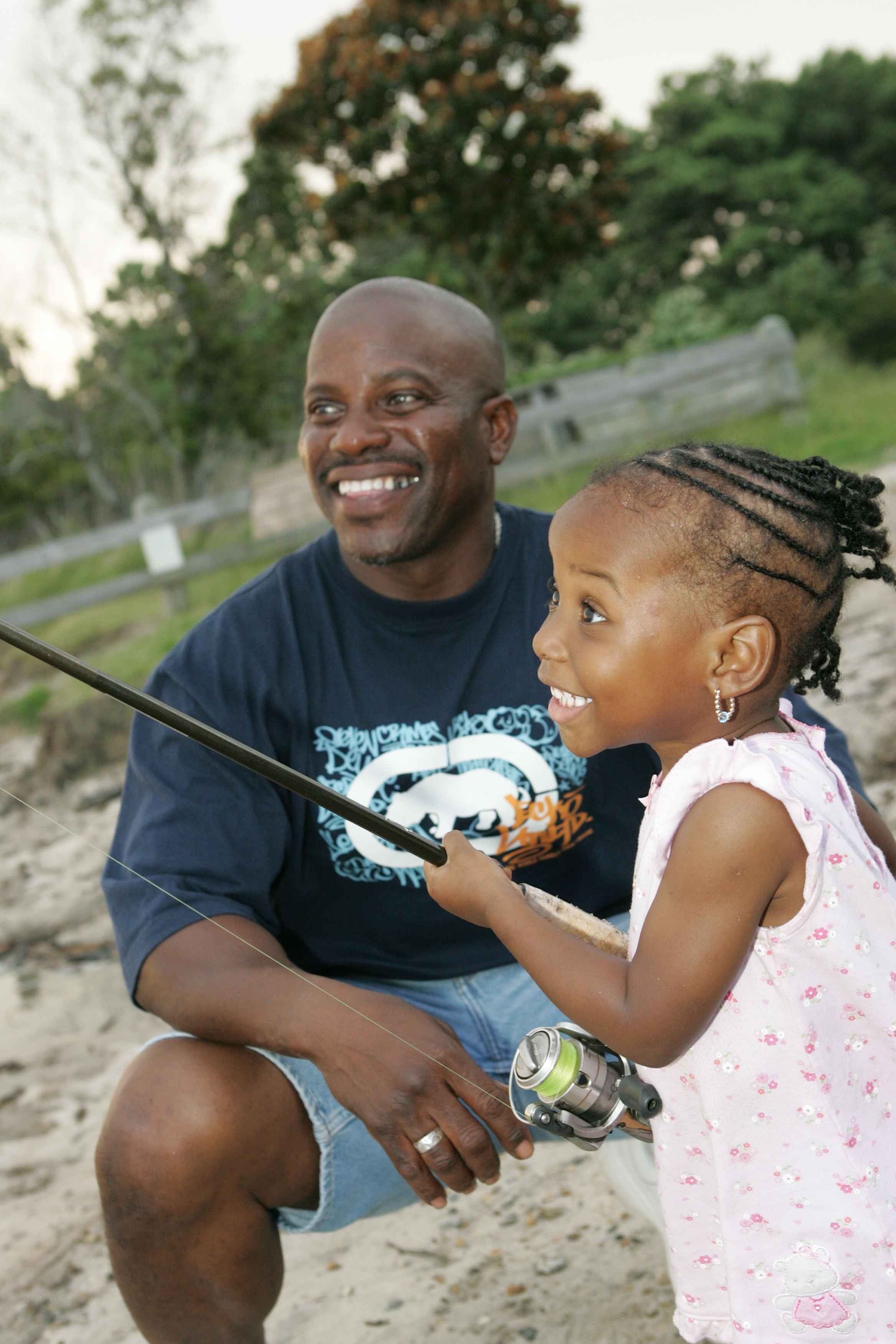 Image title: Dad and daughter fishing Image from Public domain images website